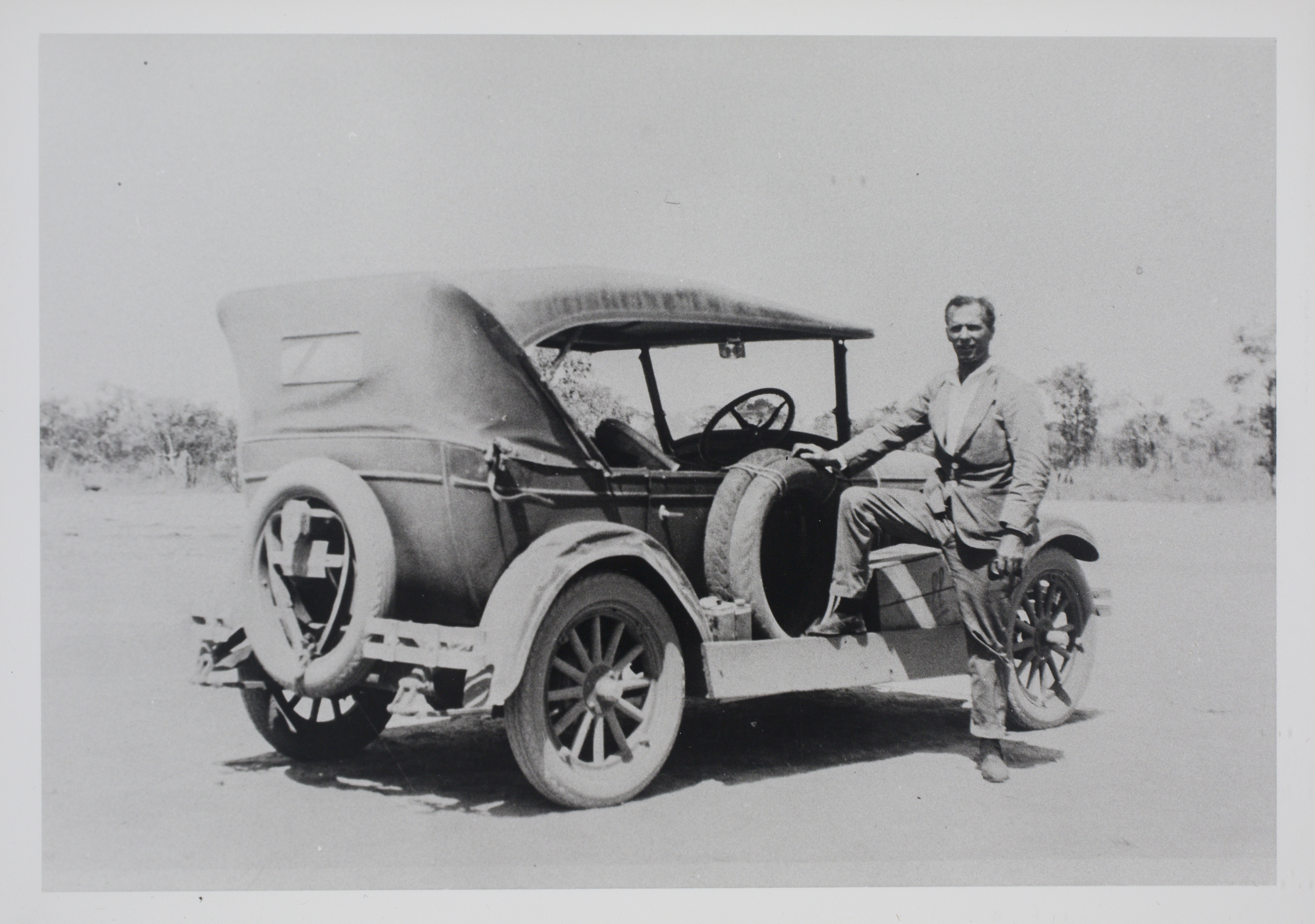 Harold Edward George Snell with his automobile (PH0233-0035)